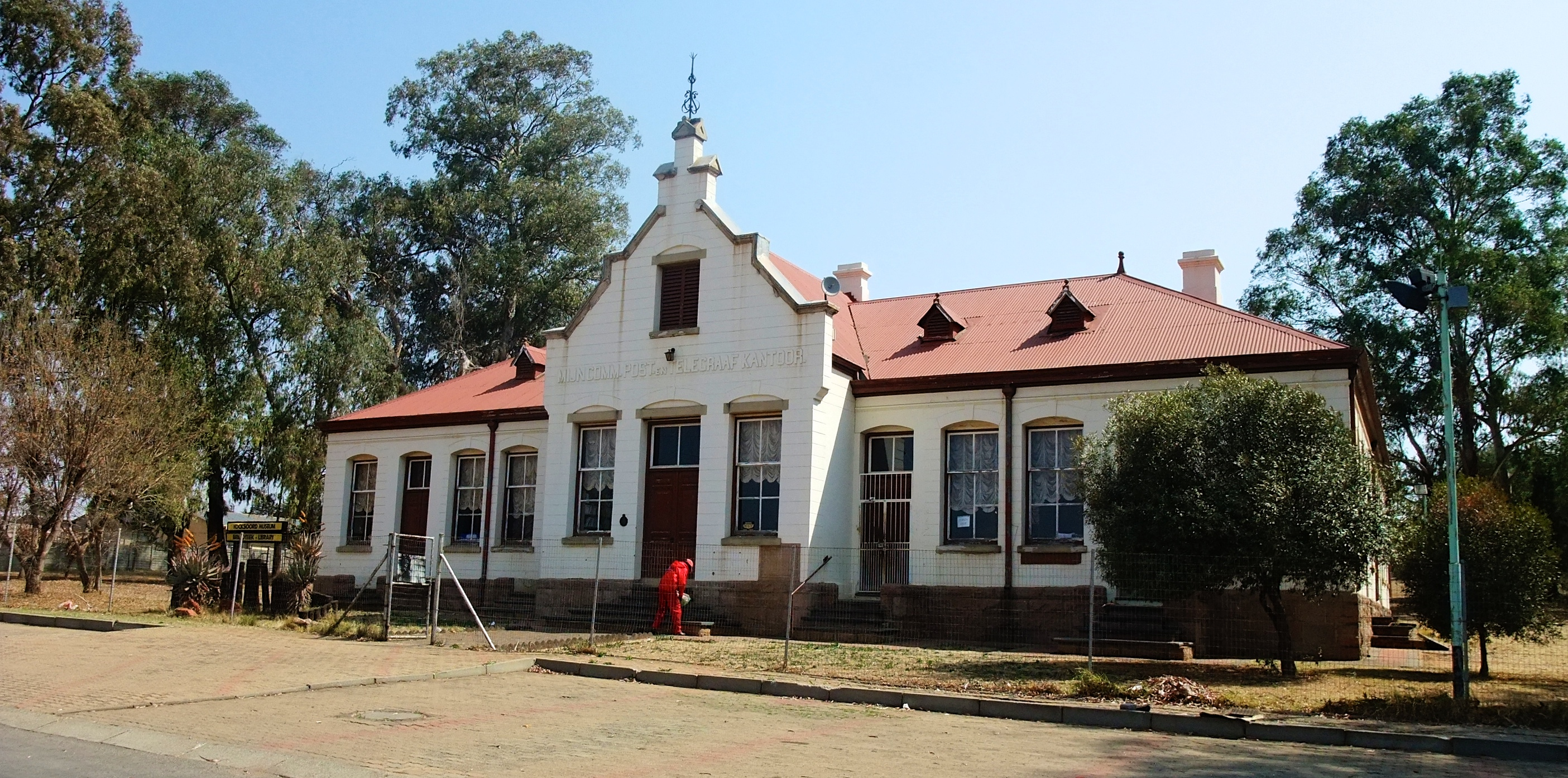 Old Mining Commissioner's Post and Telegraph Office Building, 70 Market Street, Kocksoord, Randfontein This media shows a South African Protected Site with SAHRA file reference 9/2/260/0003.